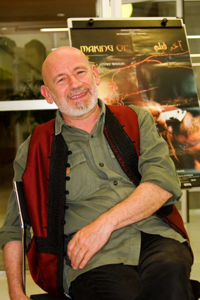 The tunisian filmmaker during the presentation of his film "Making Of", Official Section